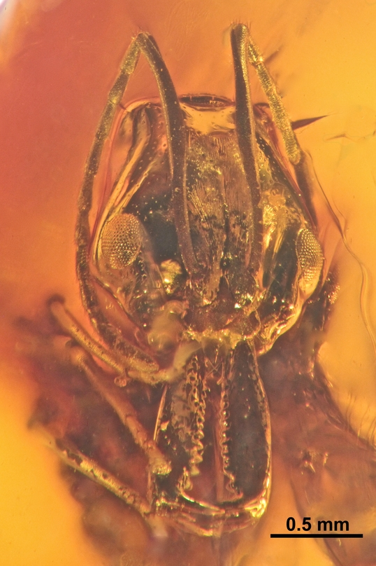 Close-up view of the Anochetus lucidus holotype head. Specimen " SMNSDO2846-1"